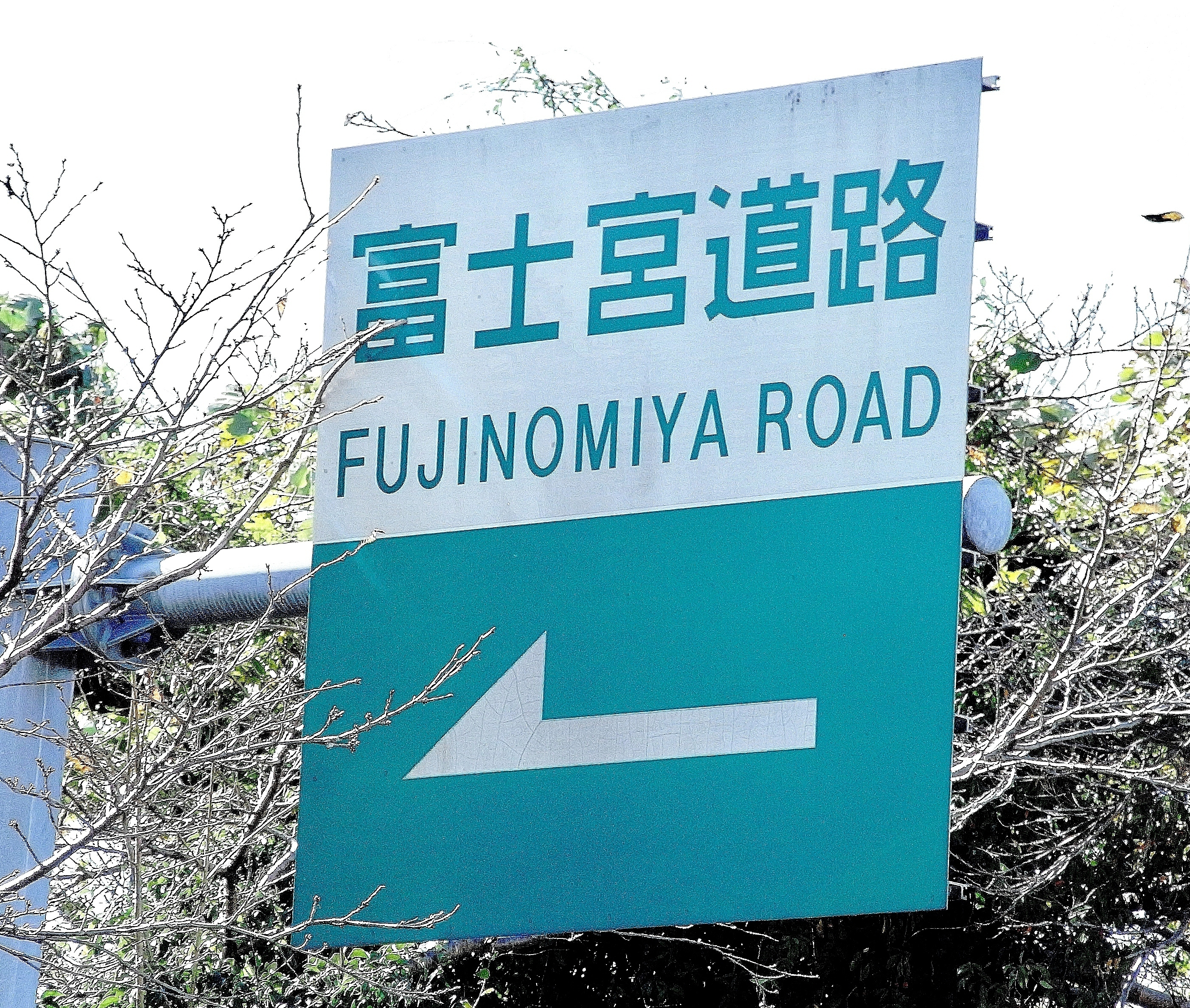 Traffic sign of Fujinomiya Road